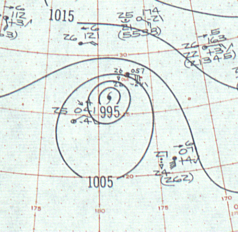 Surface analysis of Hurricane Patsy, at the time a Category 3 hurricane, on September 7, 1959.